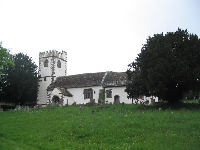 Church of St. Cadoc, Llangattock Lingoed Certainly worth a visit.